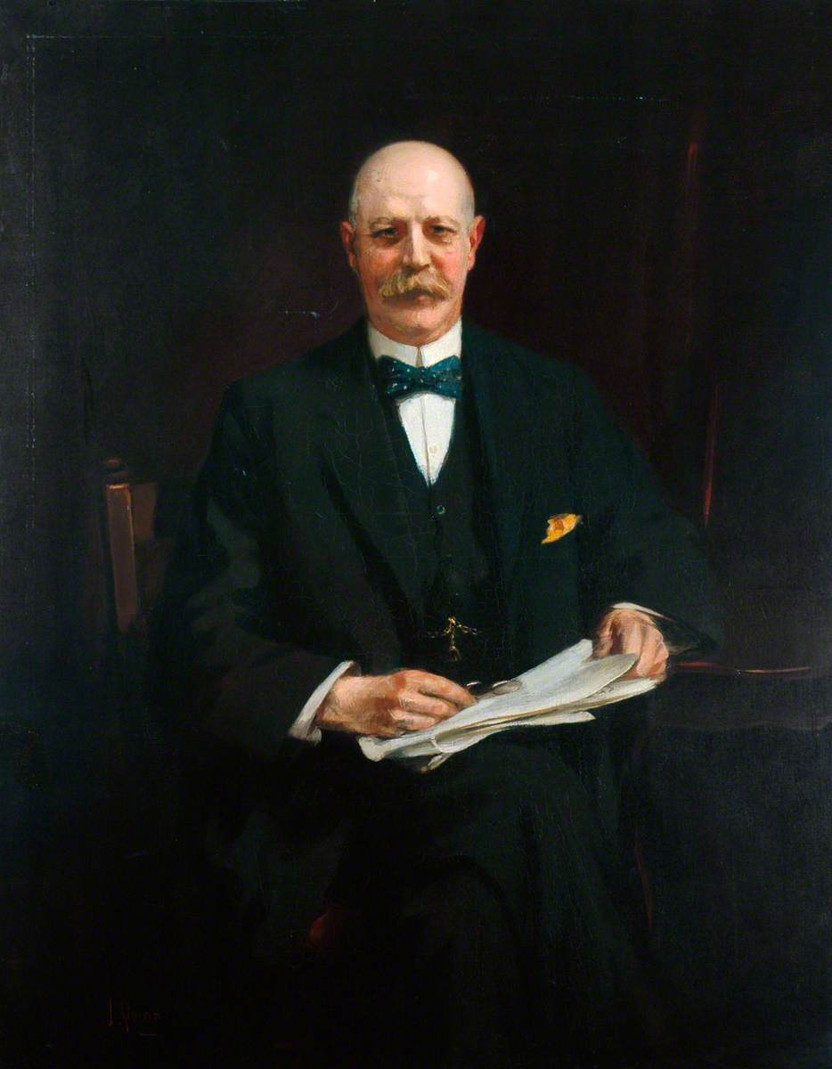 Photograph of a portrait of Charles Bowen Cooke, engineer